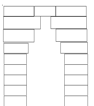 A drawing of the principle behind a corbelled arch.